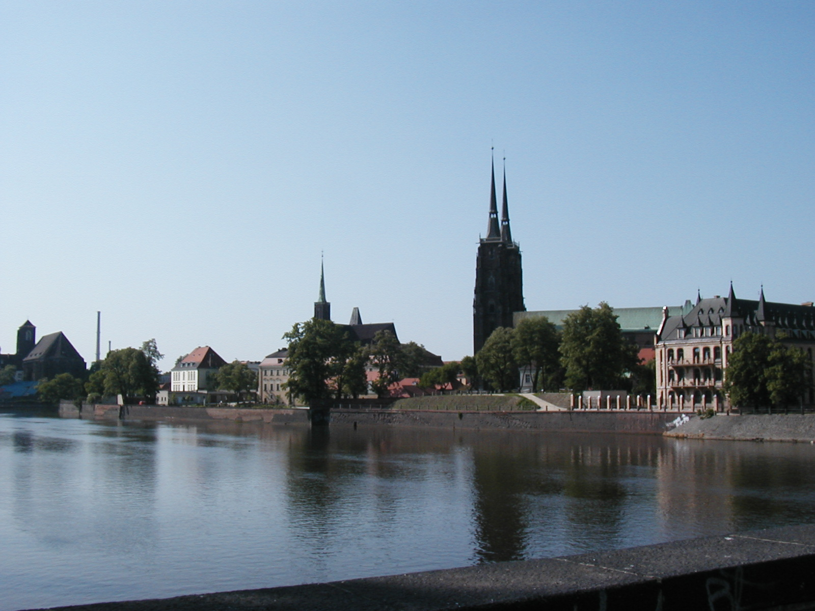 Sight of the river Odra and of the "dome church island" (?) in Wrocław, Poland